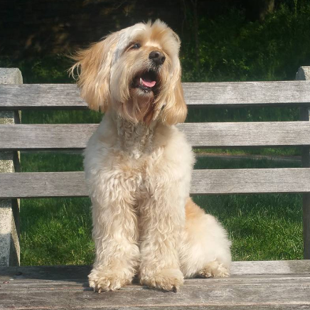 Cockapoo dog.